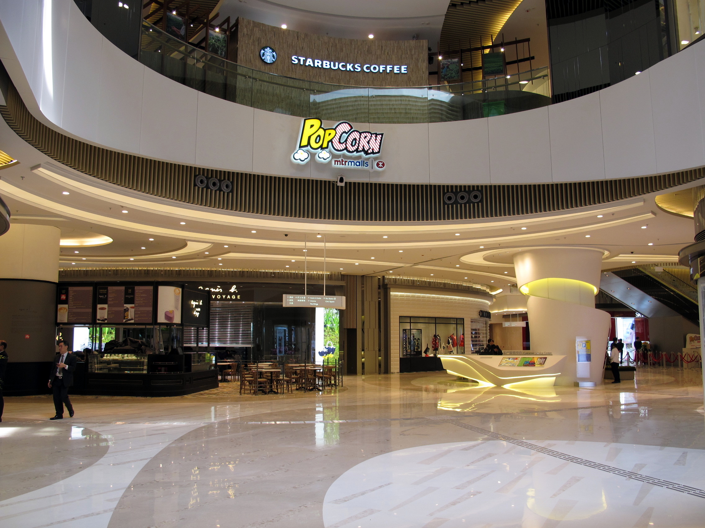 PopCorn Main Enterance 2